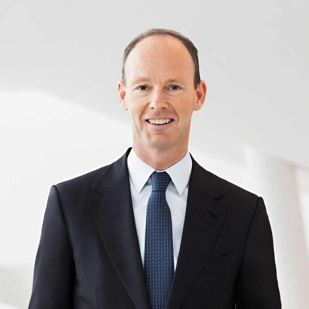 Portrait of Thomas Rabe